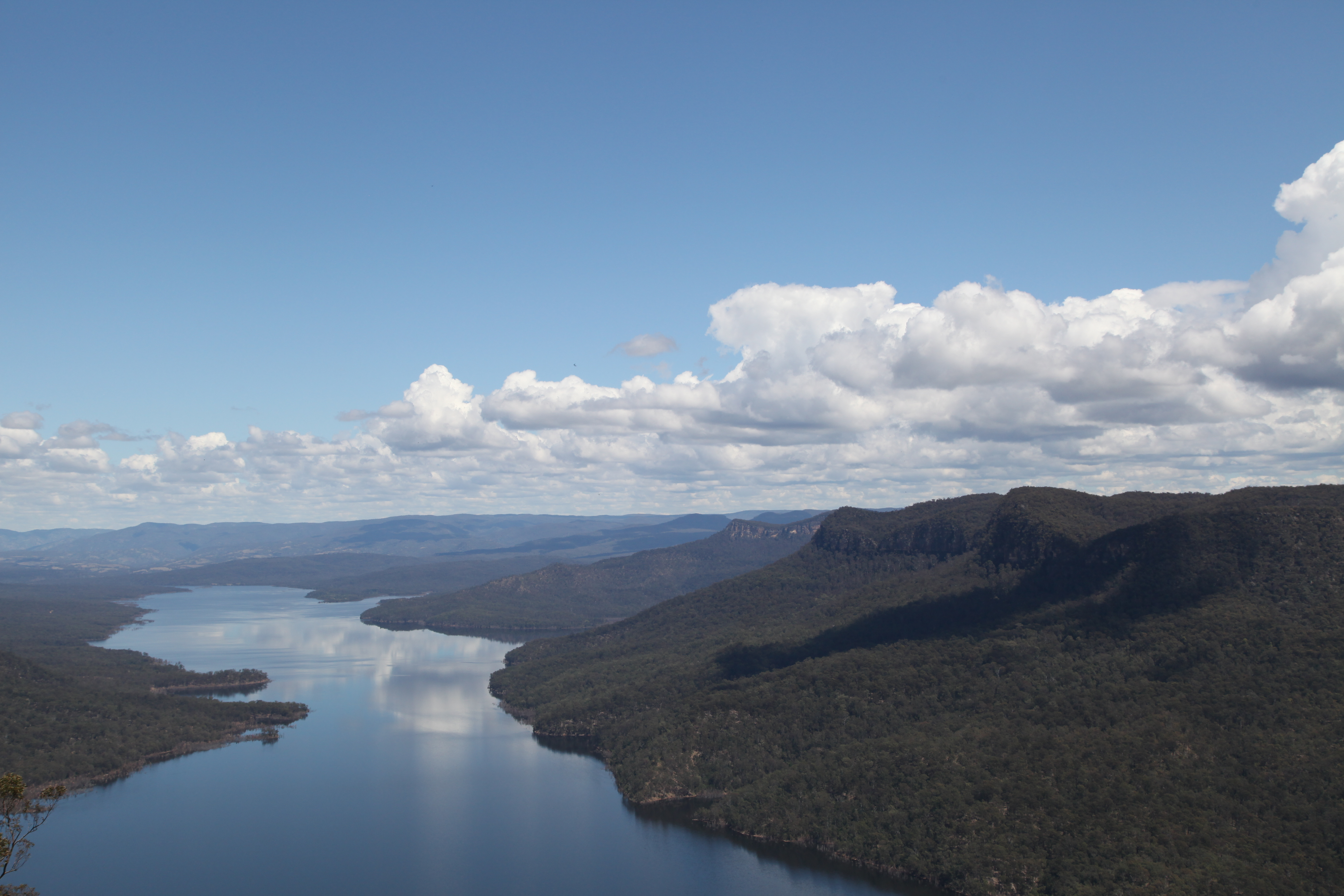 An aerial photograph of the Nattai River in New South Wales, Australia, a source of drinking water for the Sydney region.